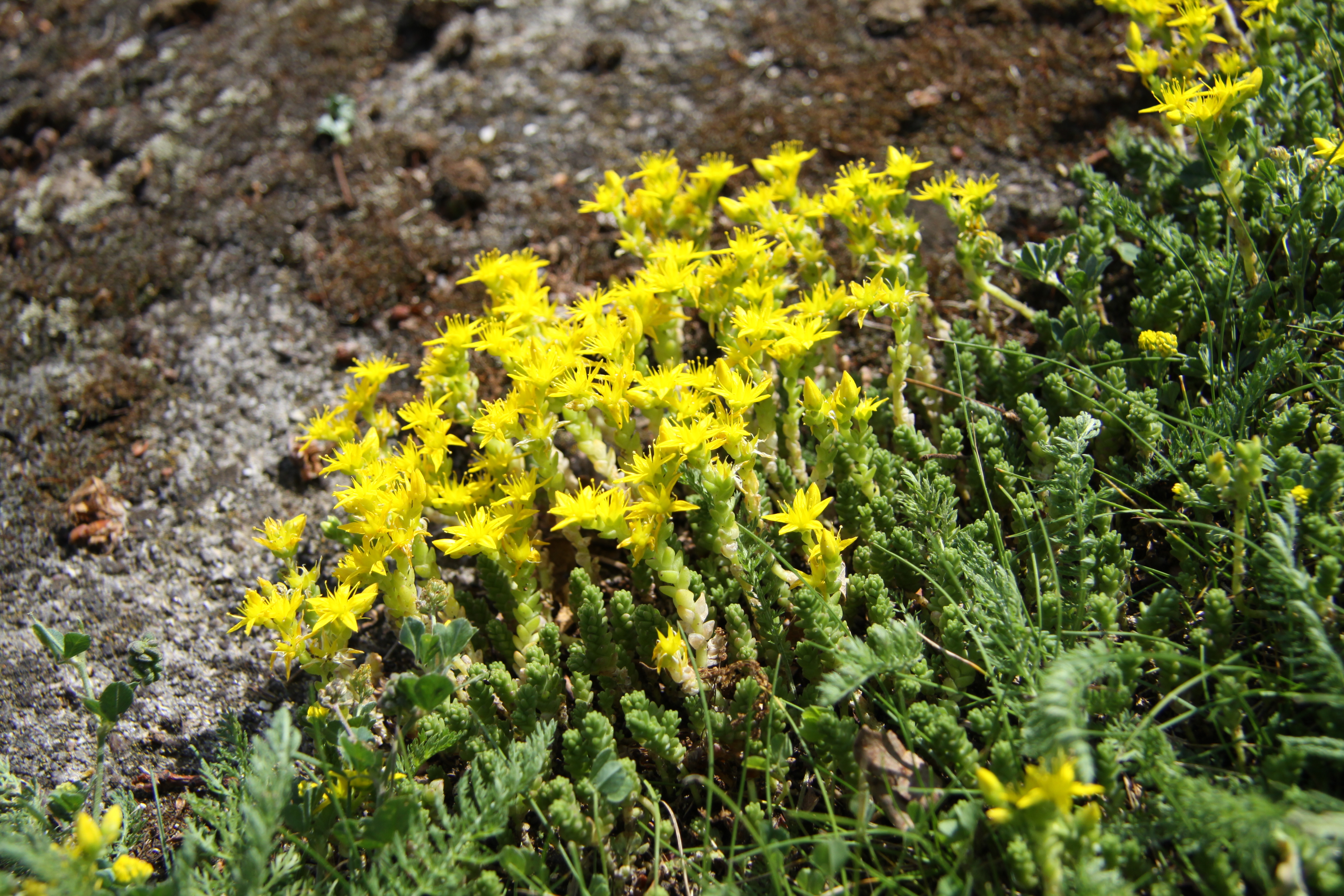 Sedum acre near Řežabinec pond in national nature reserve Řežabinec a Řežabinecké tůně in Písek District, Czech Republic